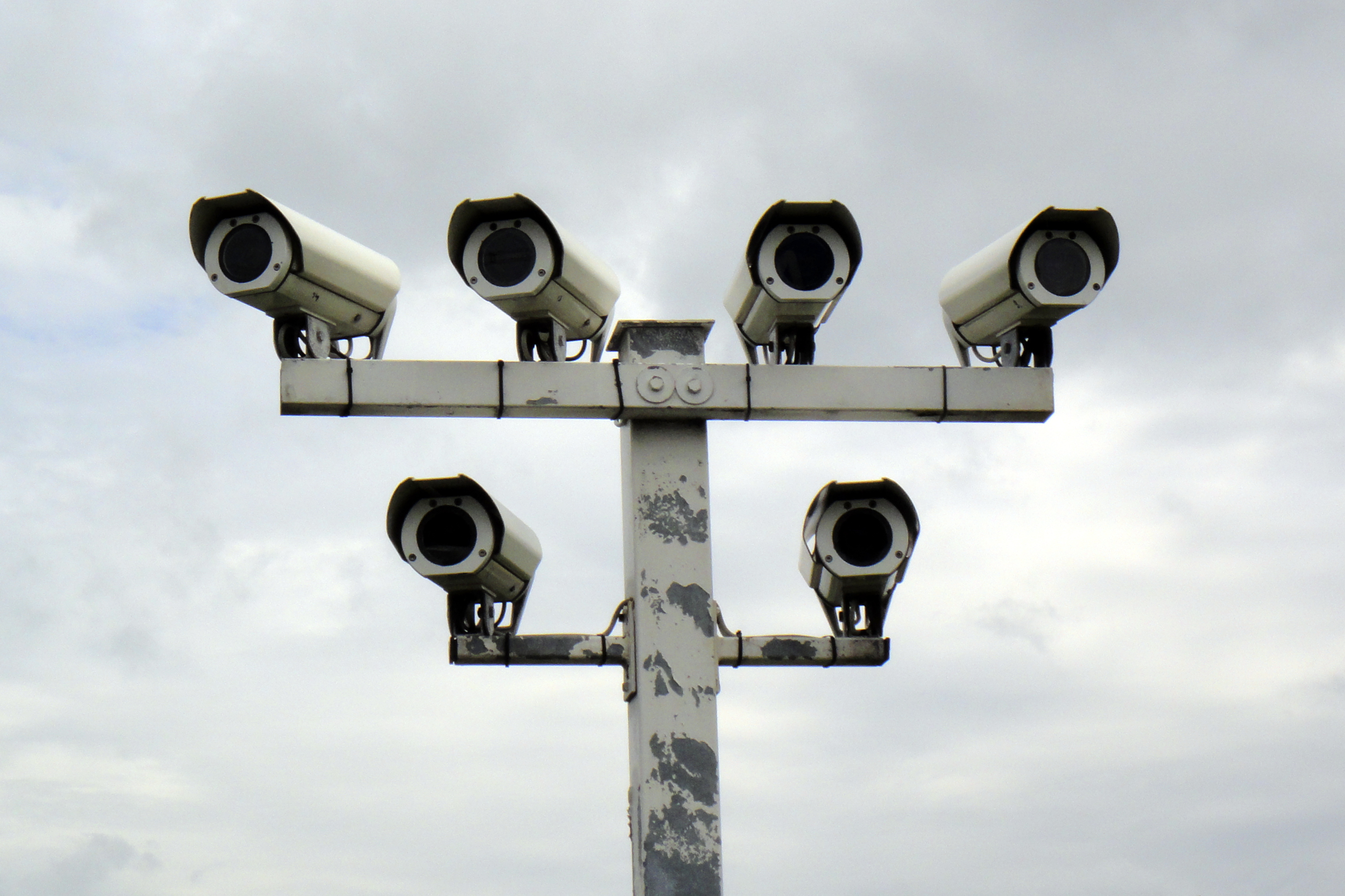 Six surveillance cameras overlooking a gas station next to the Autobahn A9